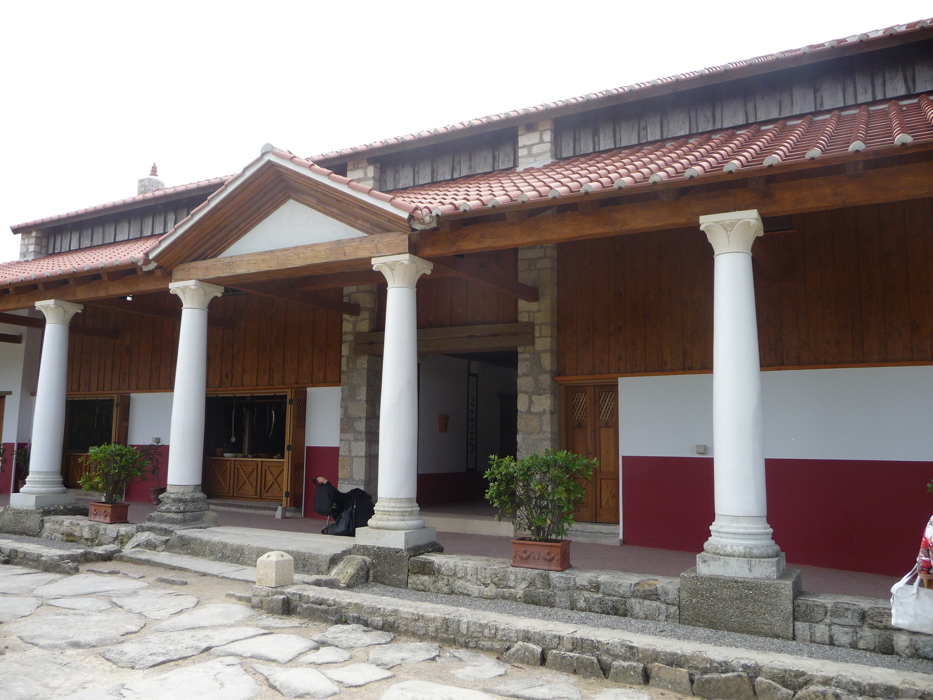 ART CARNUNTUM Dieses Bild wurde anlässlich des österreichischen Tags des Denkmals 2012 in Niederösterreich eingereicht.